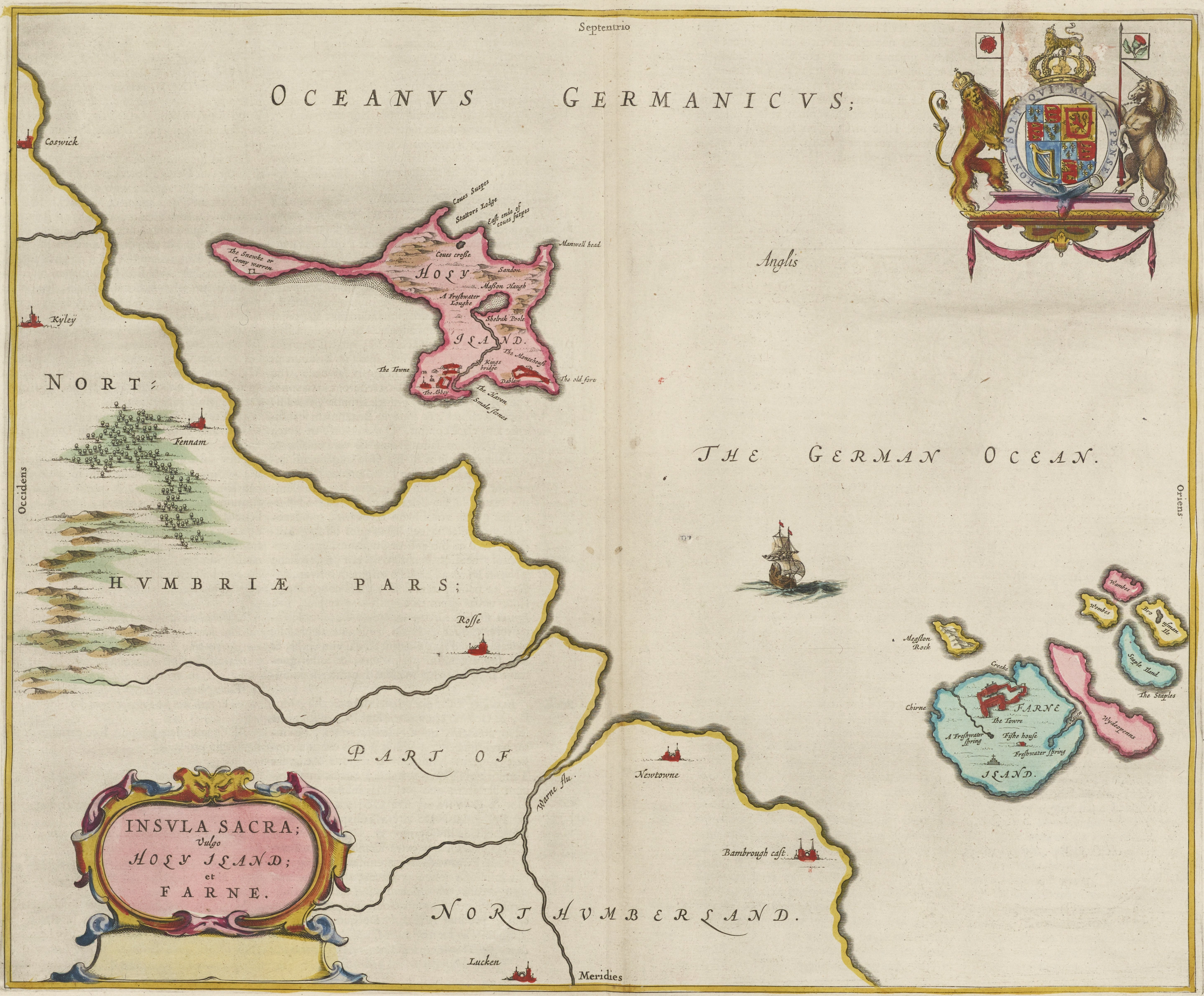 Map of Lindisfarne (formerly Holy Island) and Farne Islands off the coast of Northumberland, northeast England